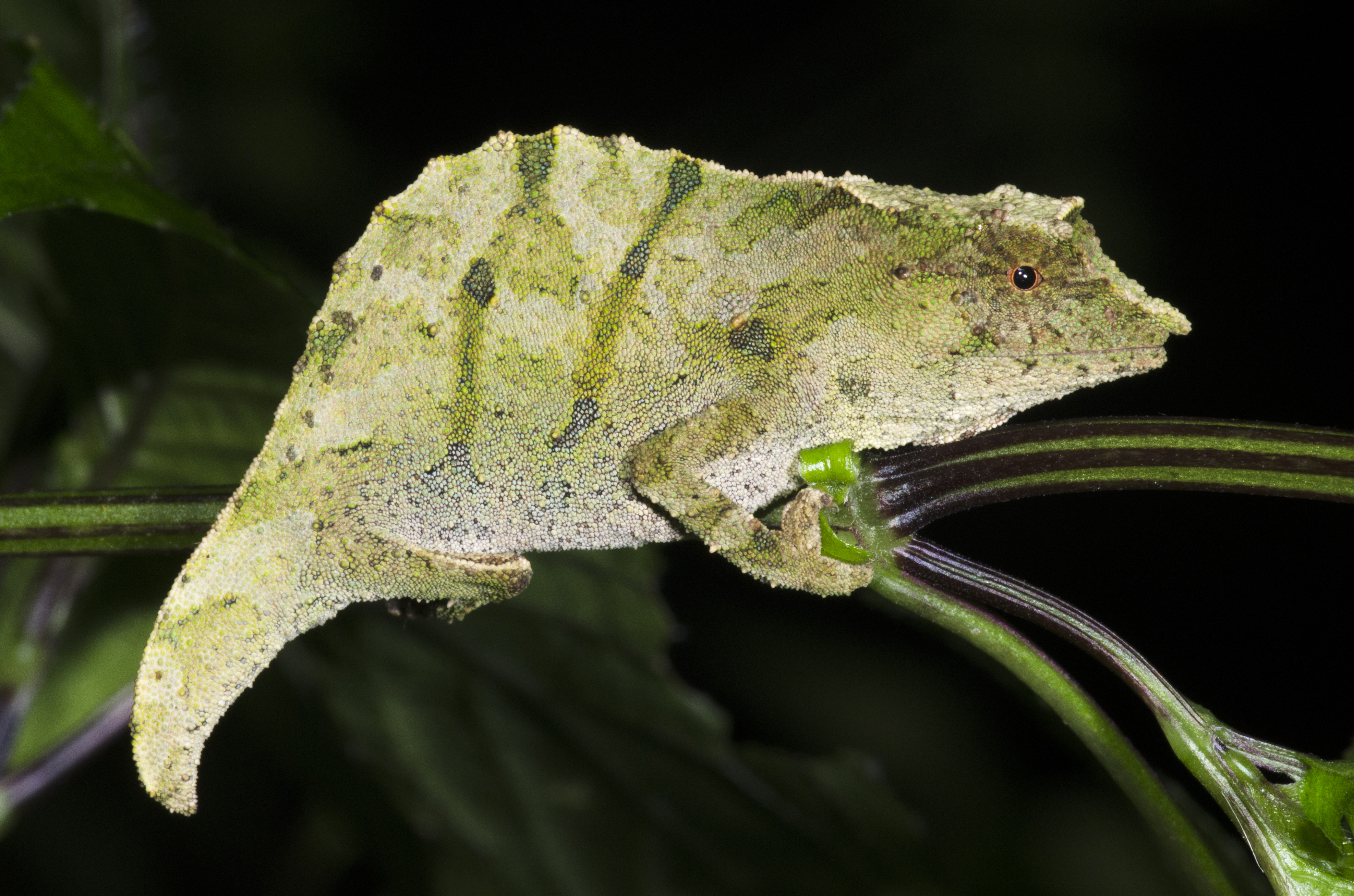 A male of the endemic stump-tailed chameleon Rhampholeon moyeri